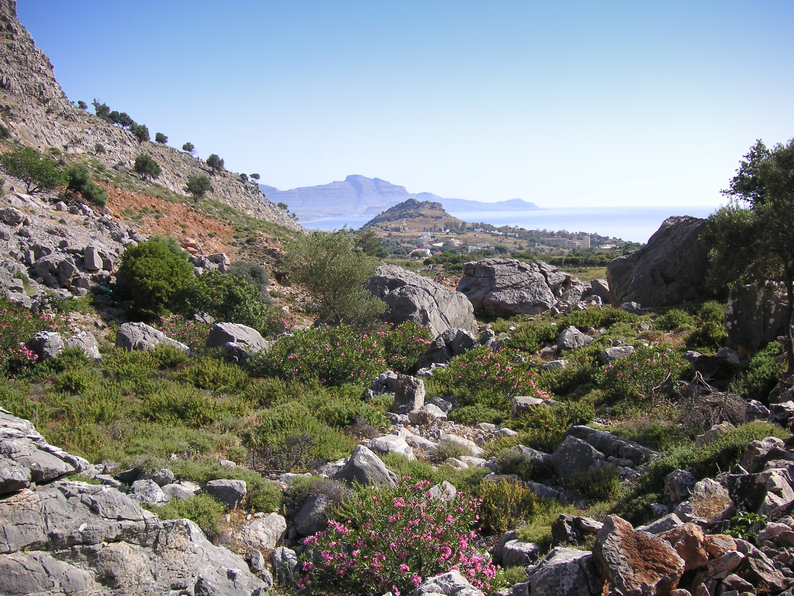 Landscape near Lindos, Rhodes